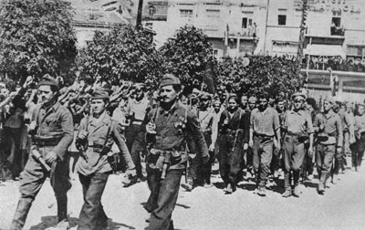 Communist partisans entering Plovdiv, Bulgaria.